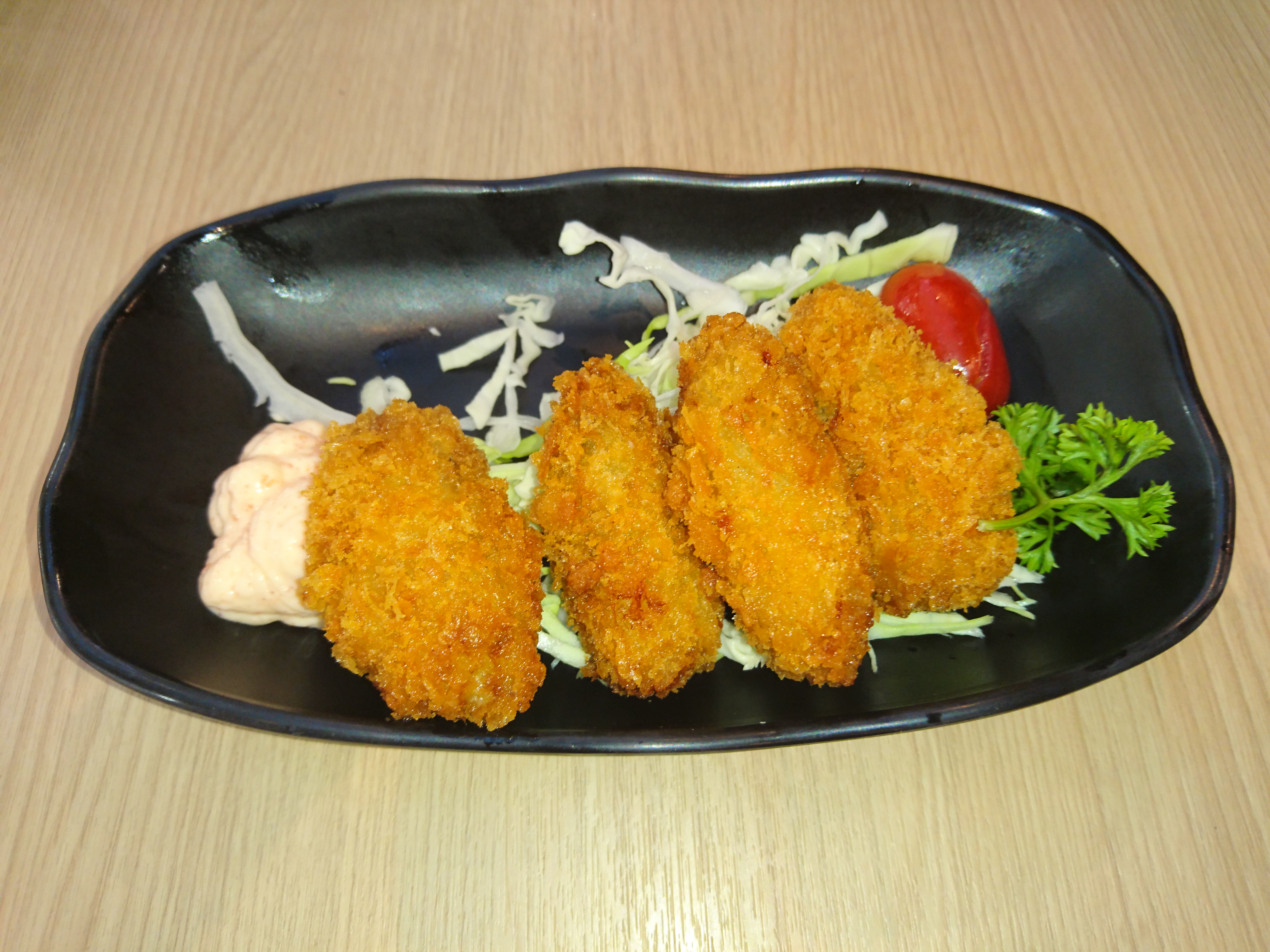 Cutlet Oyster